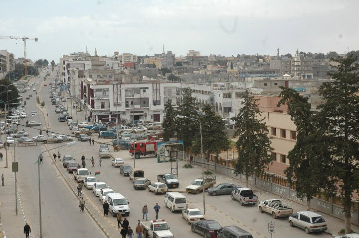 Neighborhood of Al Akhdar in Bayda city of Libya in 2011-08-23.